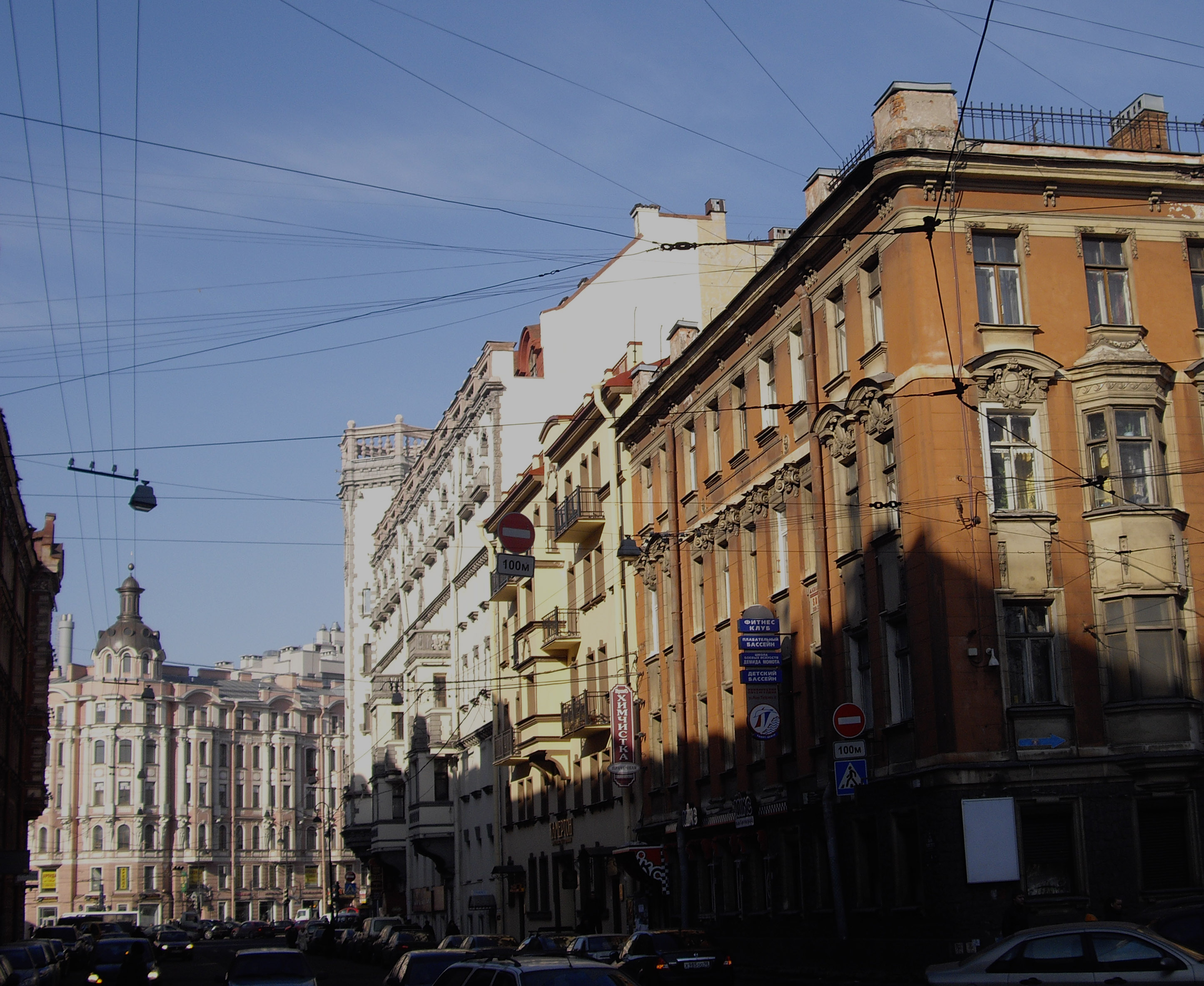 Ulitsa Lva Tolstogo (Lev Tolstoi Street) in Saint Petersburg at the beginning of Petropavlovskaya Street